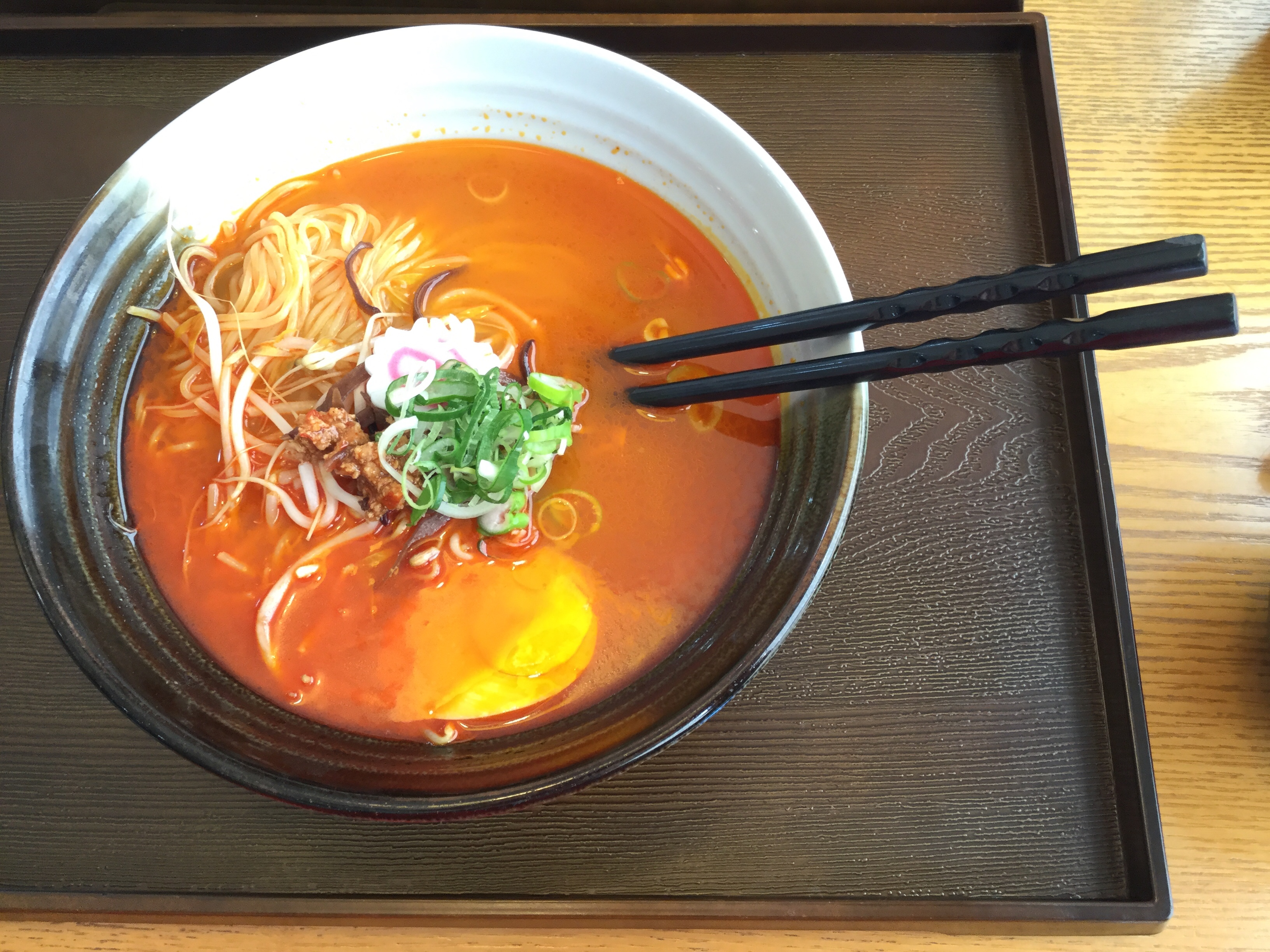 Original Ramen